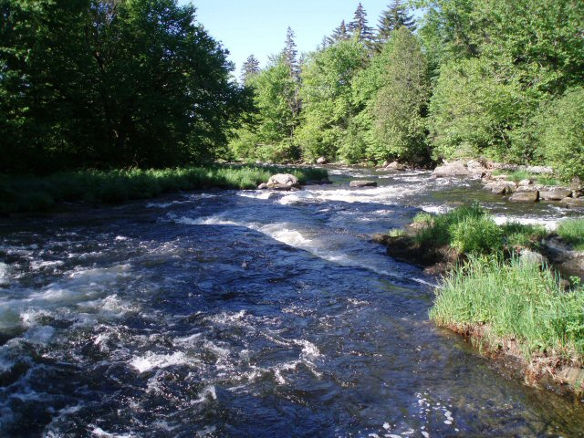 The In-Between Waters of the Trophy Stretch of the Connecticut River near 1st Connecticut Lake, New Hampshire